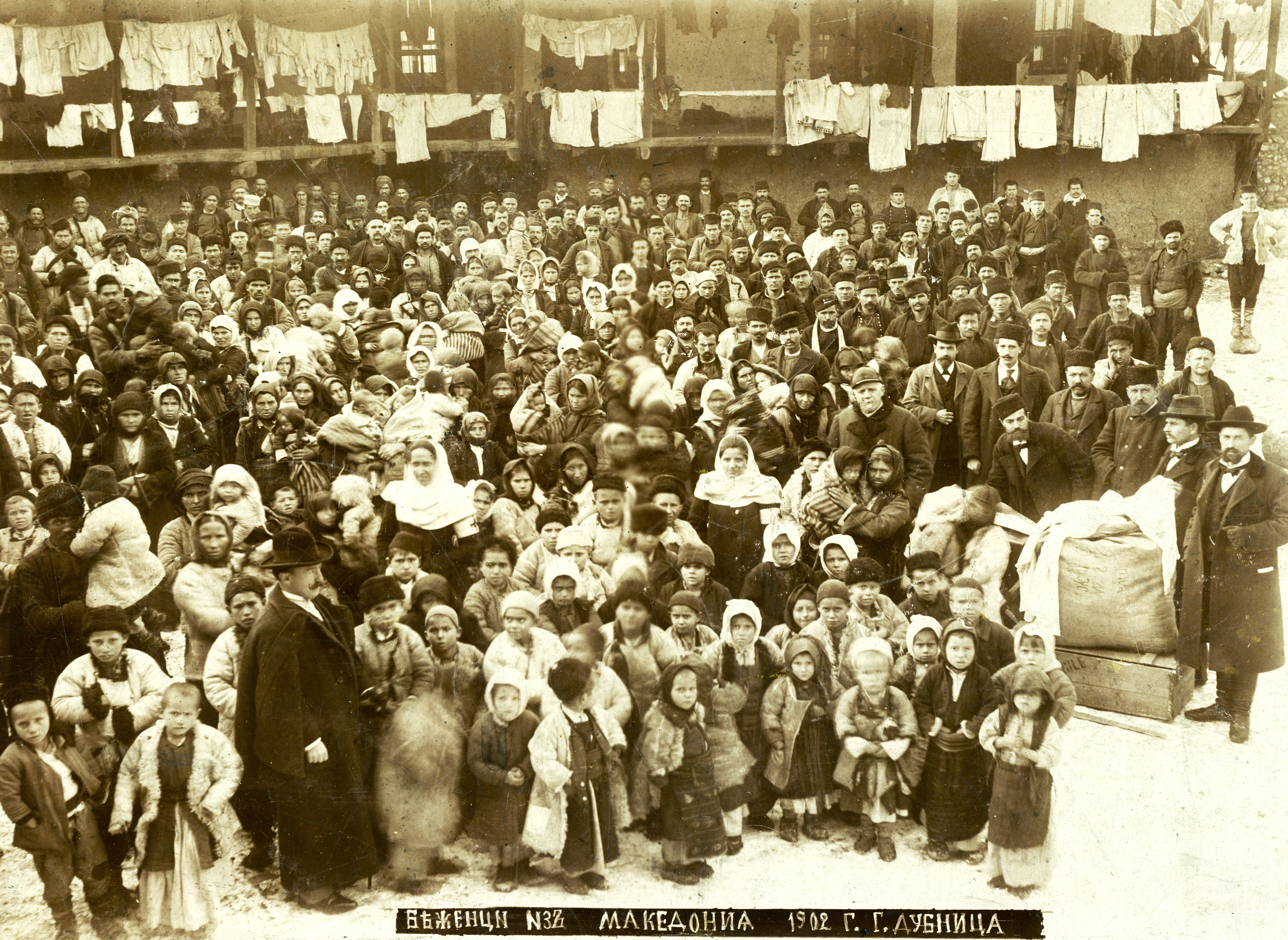 This photo is provided by the Historical Museum in Dupnitsa and is included in the album "Dupnitsa through the centuries" („Дупница през вековете“). Dupnitsa Municipality, Historical Museum - Dupnitsa. ISBN 978-954-8187-89-3.